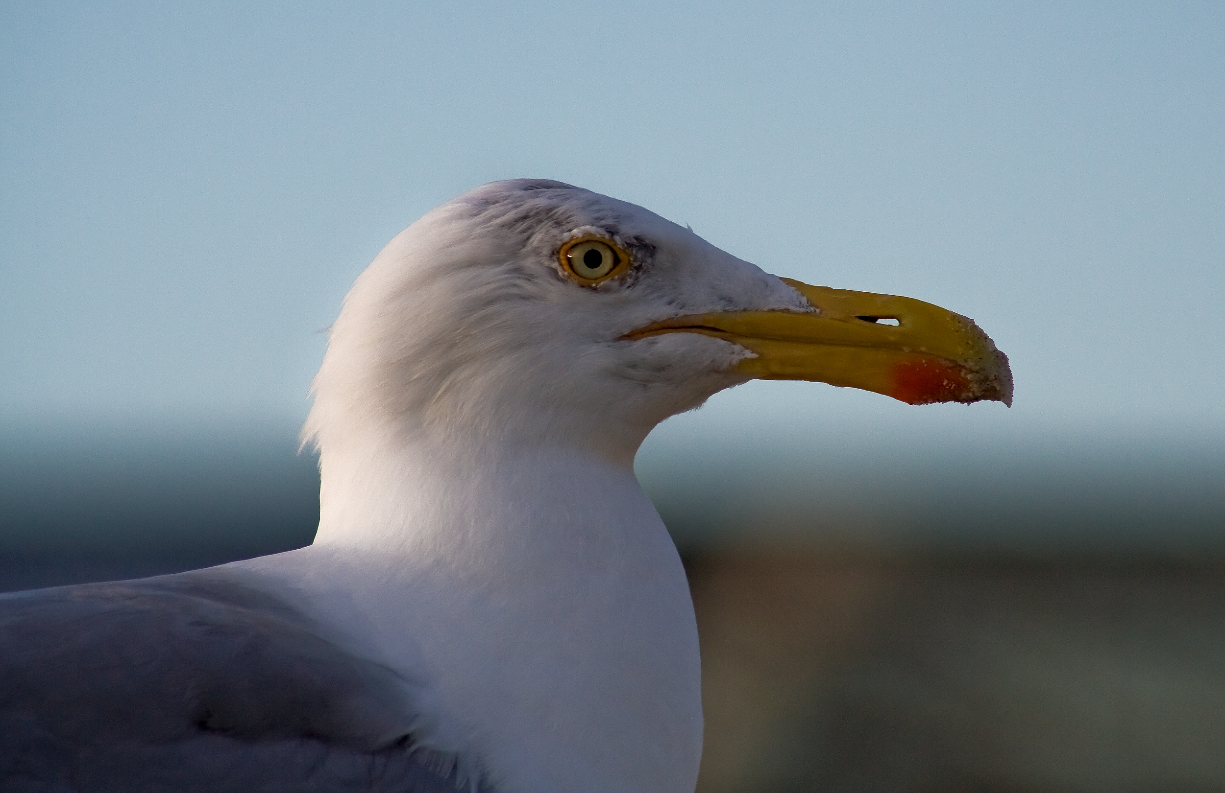 A Herring Gull. Photographed on the island Fehmarn at the south-beach